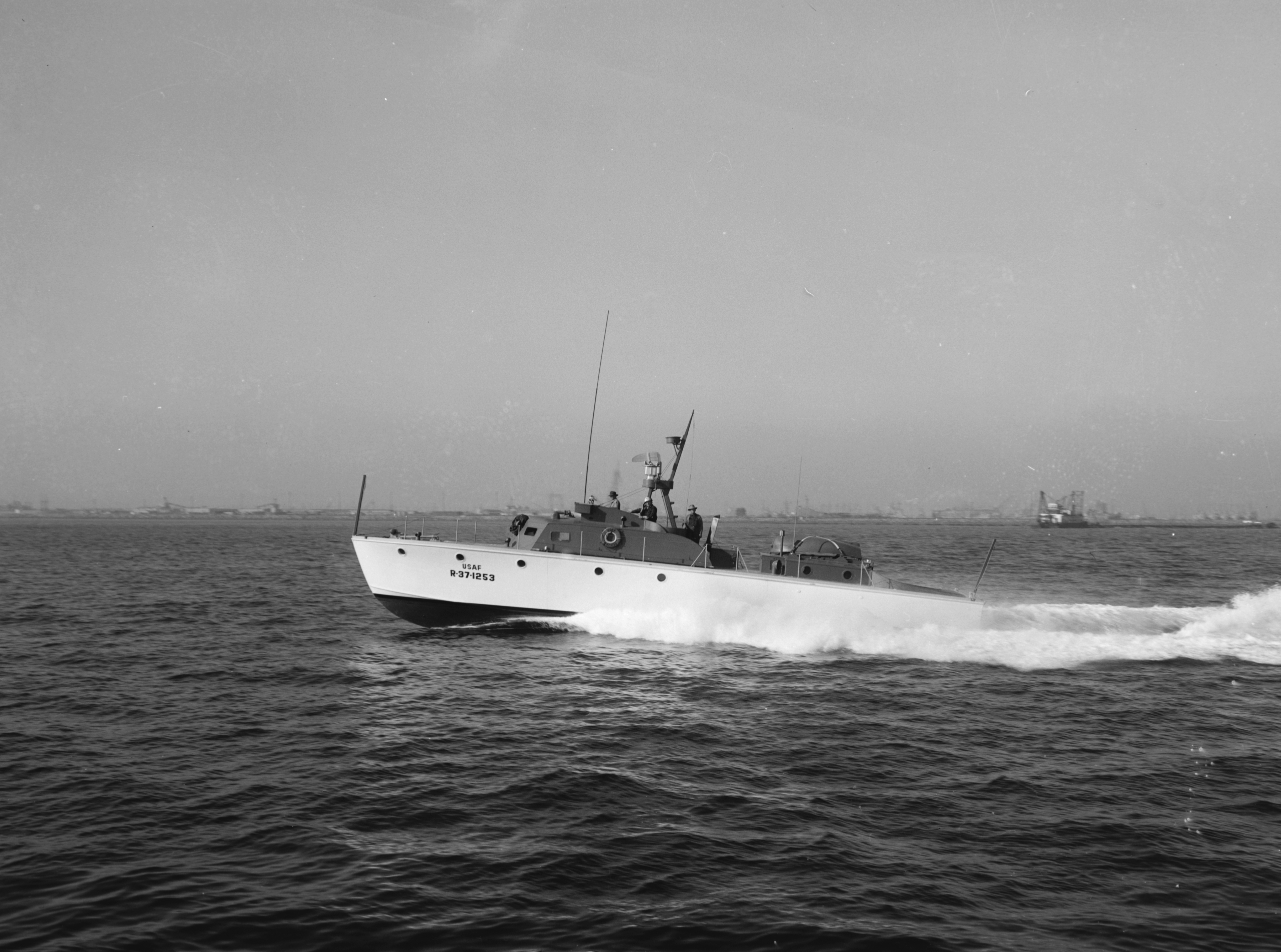 A U.S. Air Force 63 foot (19.20 m) Mark II air sea rescue boat underway at full speed on 21 October 1953.